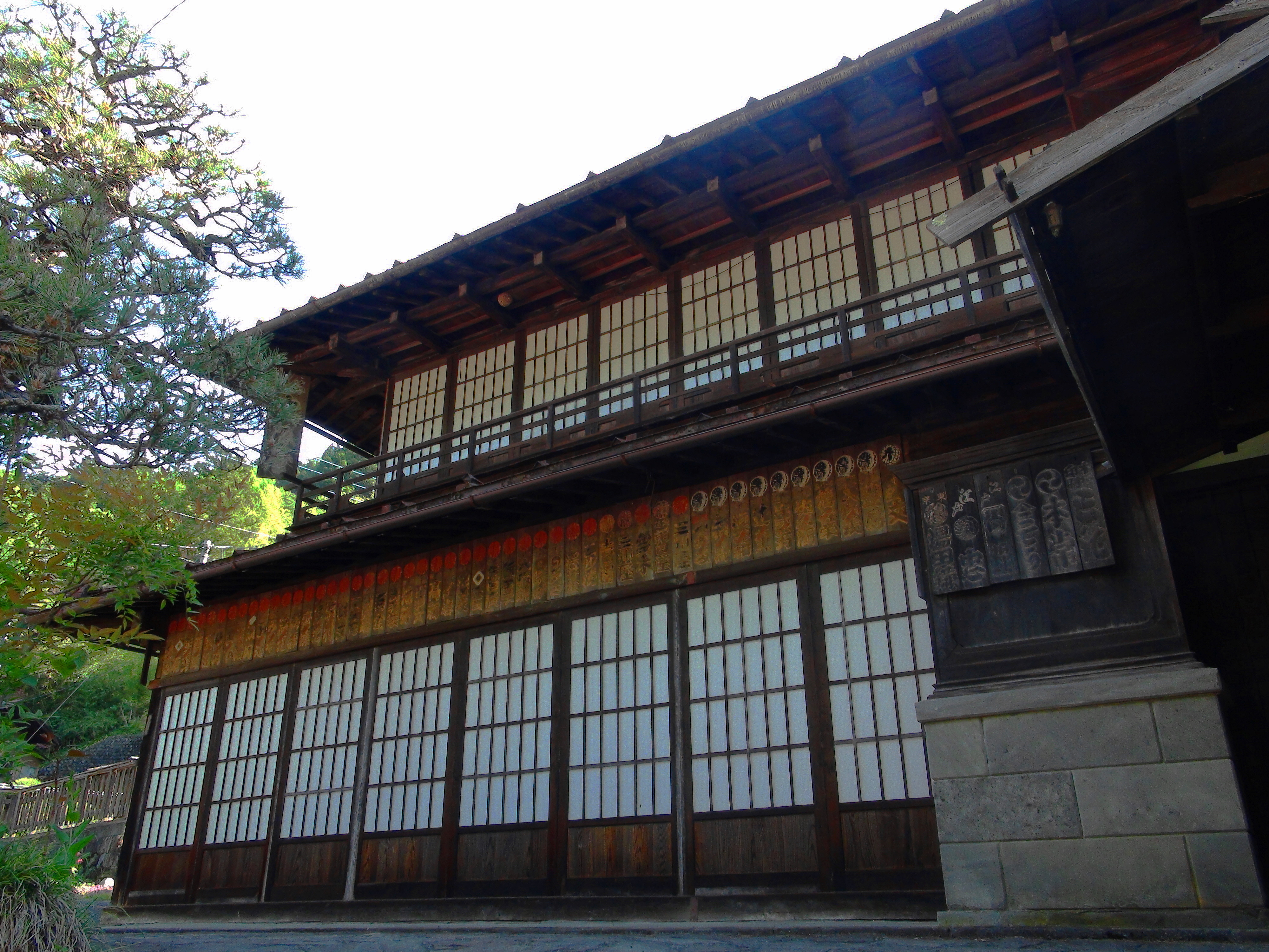 Old accommodations Osakaya in Akasawa